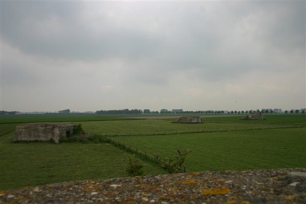 A picture of German pillboxes near Steenbergen